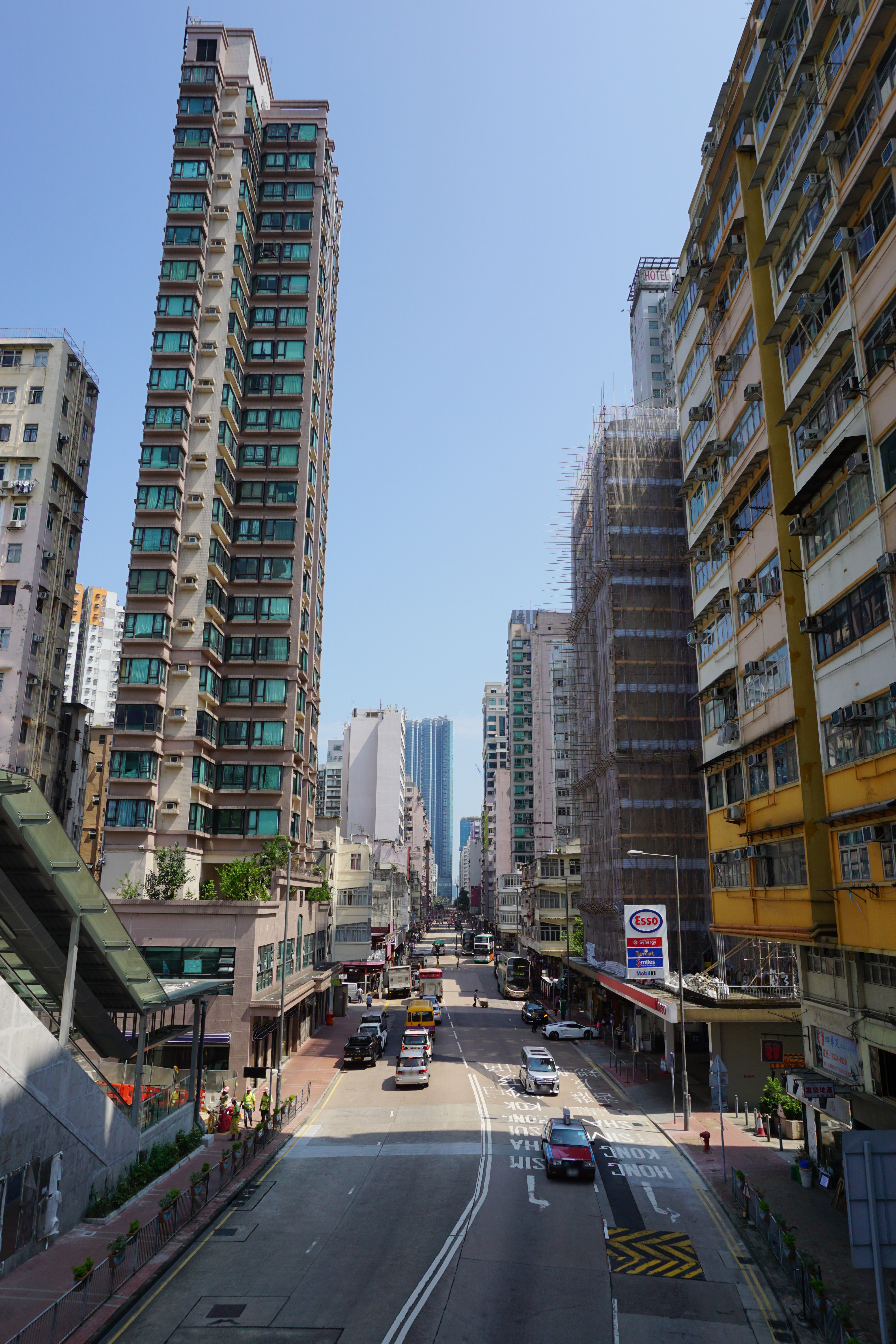 Wuhu Street in Hung Hom, Hong Kong.